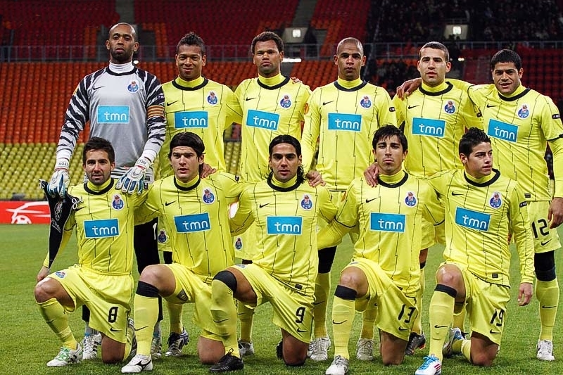 F.C. Porto in UEFA Europa League round of 16 match against PFC CSKA Moscow